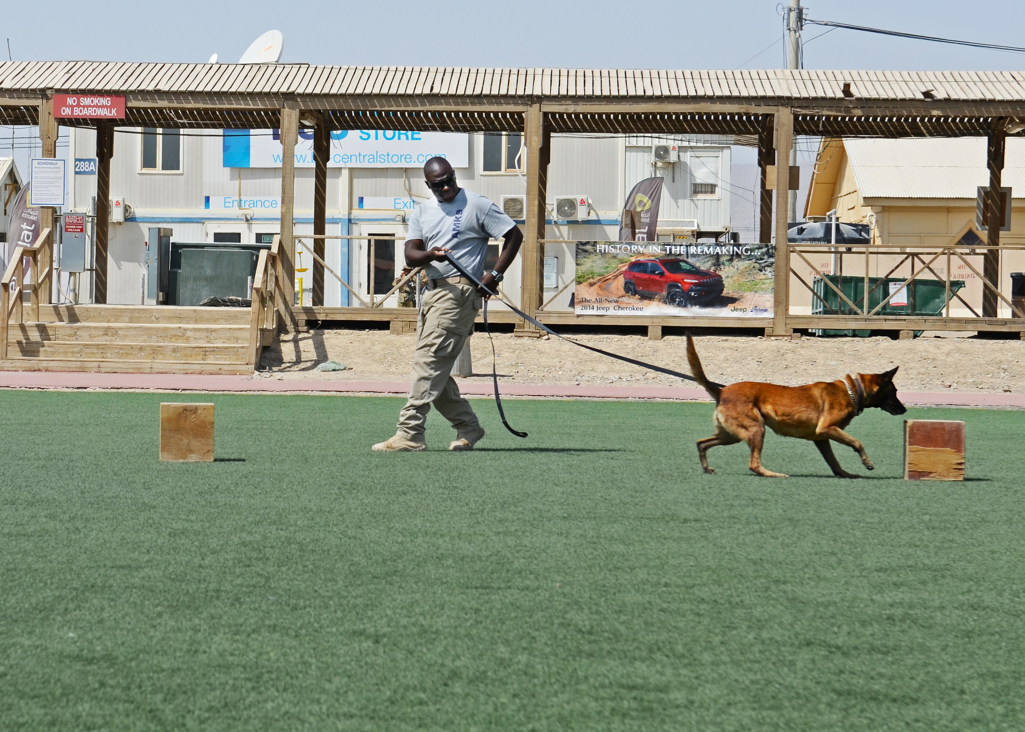 A civilian contractor working dog and handler give a bomb detection demonstration at an event commemorating World Rabies Day at the Boardwalk on Kandahar Airfield, Afghanistan, Sept. 27, 2014. The event was held to educate service members on the dangers of rabies while they are deployed to Afghanistan. (U.S. Army photo by Staff Sgt. John Etheridge)